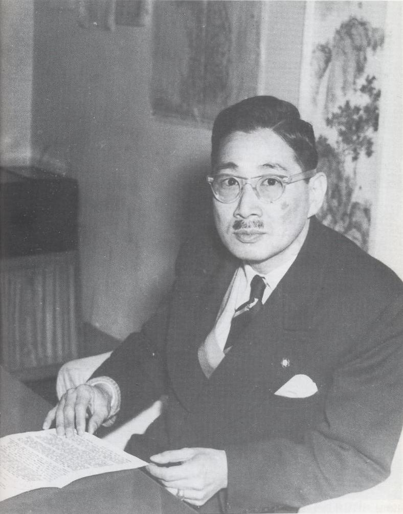 Chang Taek-sang, 3rd Prime Minister, First Foreign Affairs Minister of South Korea